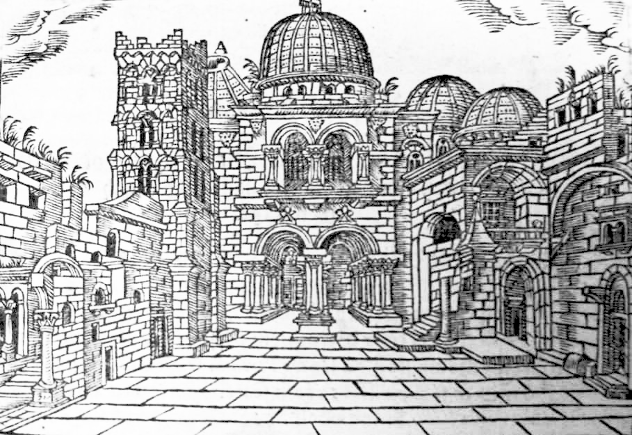 Engraving "Chrám božího hrobu" by Jan Willenberg.